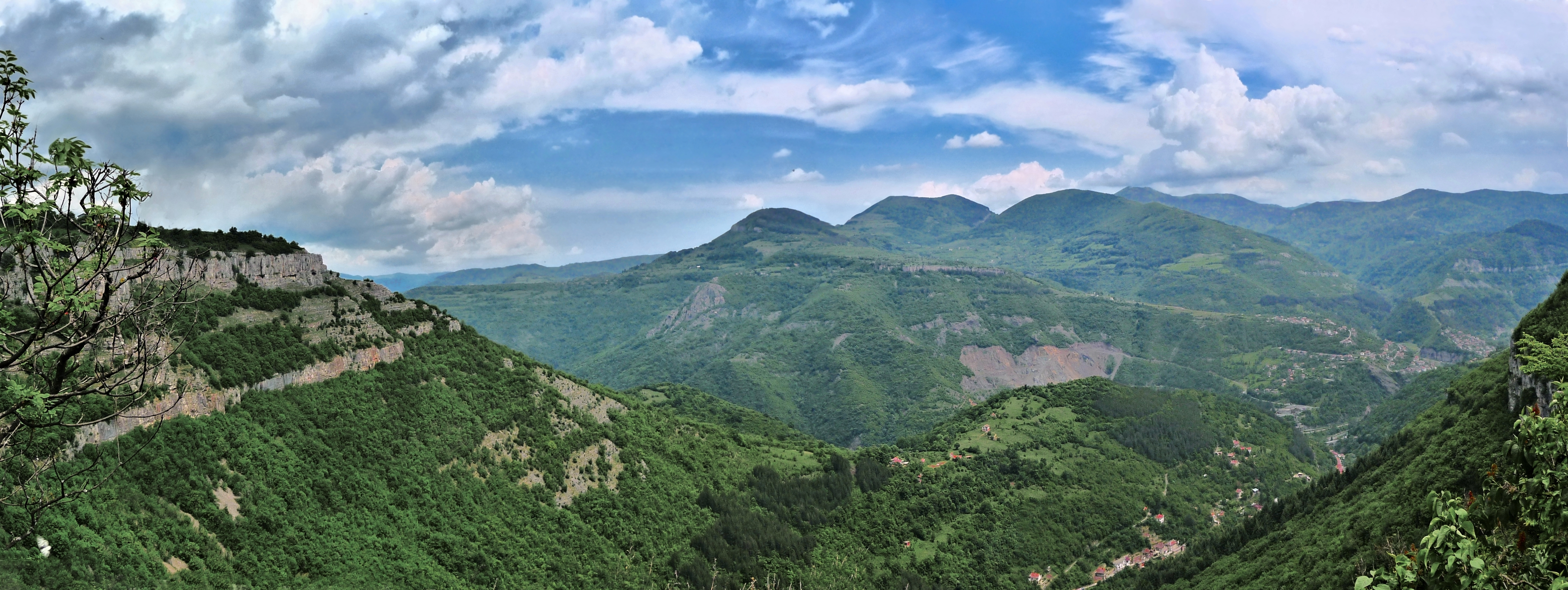 Panoramic view of Iskar gorge from the upper part of Skaklia waterfall near "Zasele" village.